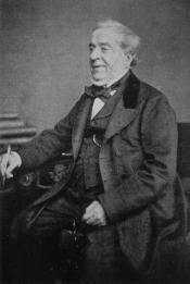 William Banting, after losing weight.